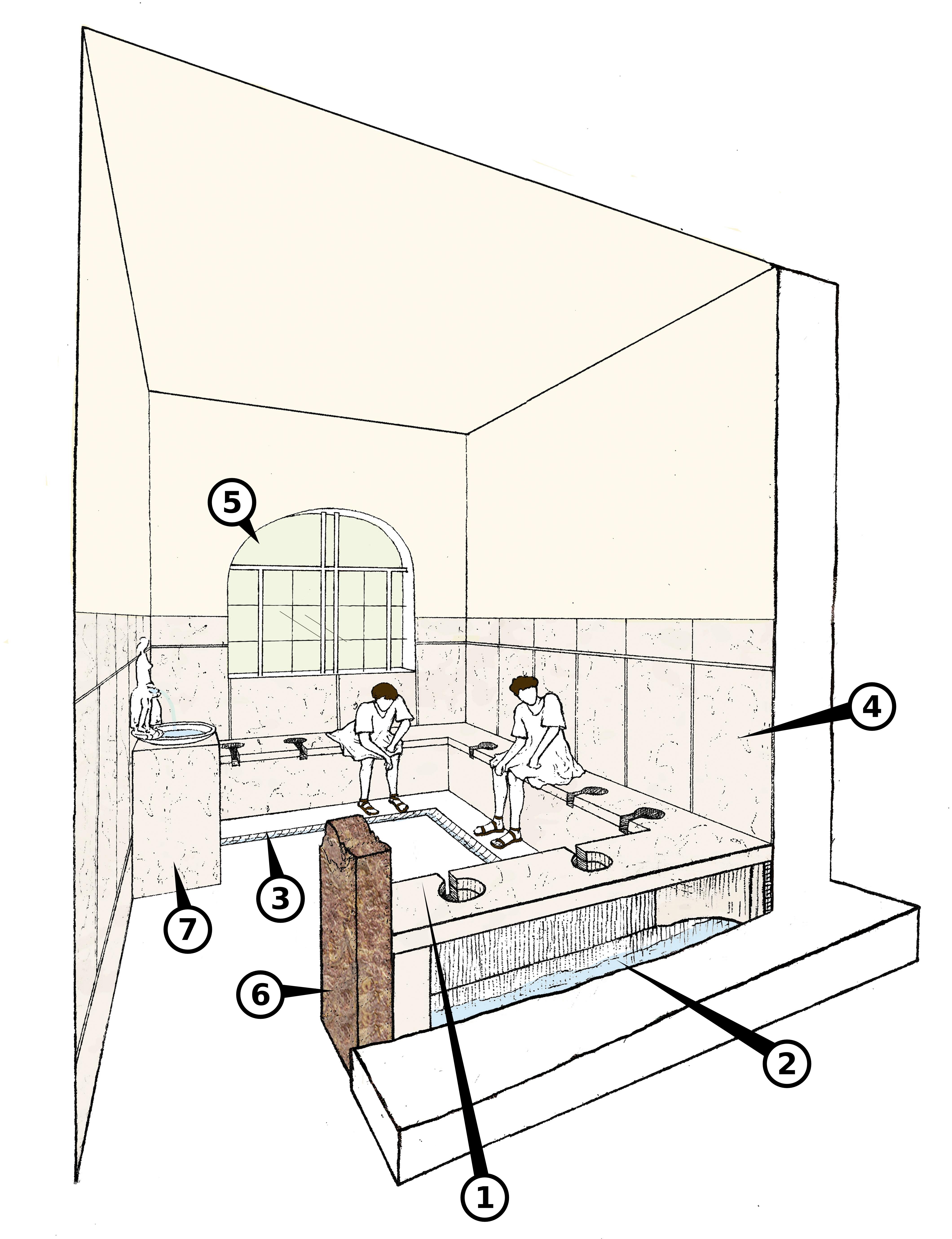 Recreation of of Roman latrines from the remains of the Roman villa of Els Munts (Altafulla, Tarragonès). Centuries II - III d.C. Link. Drawing by Meritxell Guasch, 2nd year student of illustration of the EADT (School of Art and Design of the Deputation in Tarragona), with scientific advice from the National Archaeological Museum of Tarragona (Francesc Tarrats, Montserrat Perramon, Josep Anton Remolà and Pilar Sada). 1. Bank 2. Main channel 3. Front channel 4. Limestone slab lining 5. Window 6. Balustrade / screen (MNAT 45394) 7. Washstand (basin) References: P.M. Berges (1977), "New report on the Munts", Altafullencs Studies 1, Tarragona, 27- 47. J. López (1993), "The lower terms of the Roman villa of the Munts", Use of water in Roman cities, Documents of Classical Archaeology 0, Tarragona, 57-80. F. Tarrats, J.M. Macias, E. Ramón and J.A. Remolà (2000), "New excavations in the residential area of ​​the Roman villa of 'Els Munts' (Altafulla, Ager Tarraconensis), preliminary study," Madrider Mitteilungen 41, 358-379, Tafel 64-67. This image was provided to Wikimedia Commons as a contribution from an Art&Design School thanks of a collaboration between Escola d'Art i Disseny de Tarragona and Amical Wikimedia. This file was derived from: Il·lustració d'una escena a les latrines de l'edifici dels banys de la vil·la romana dels Munts.jpg